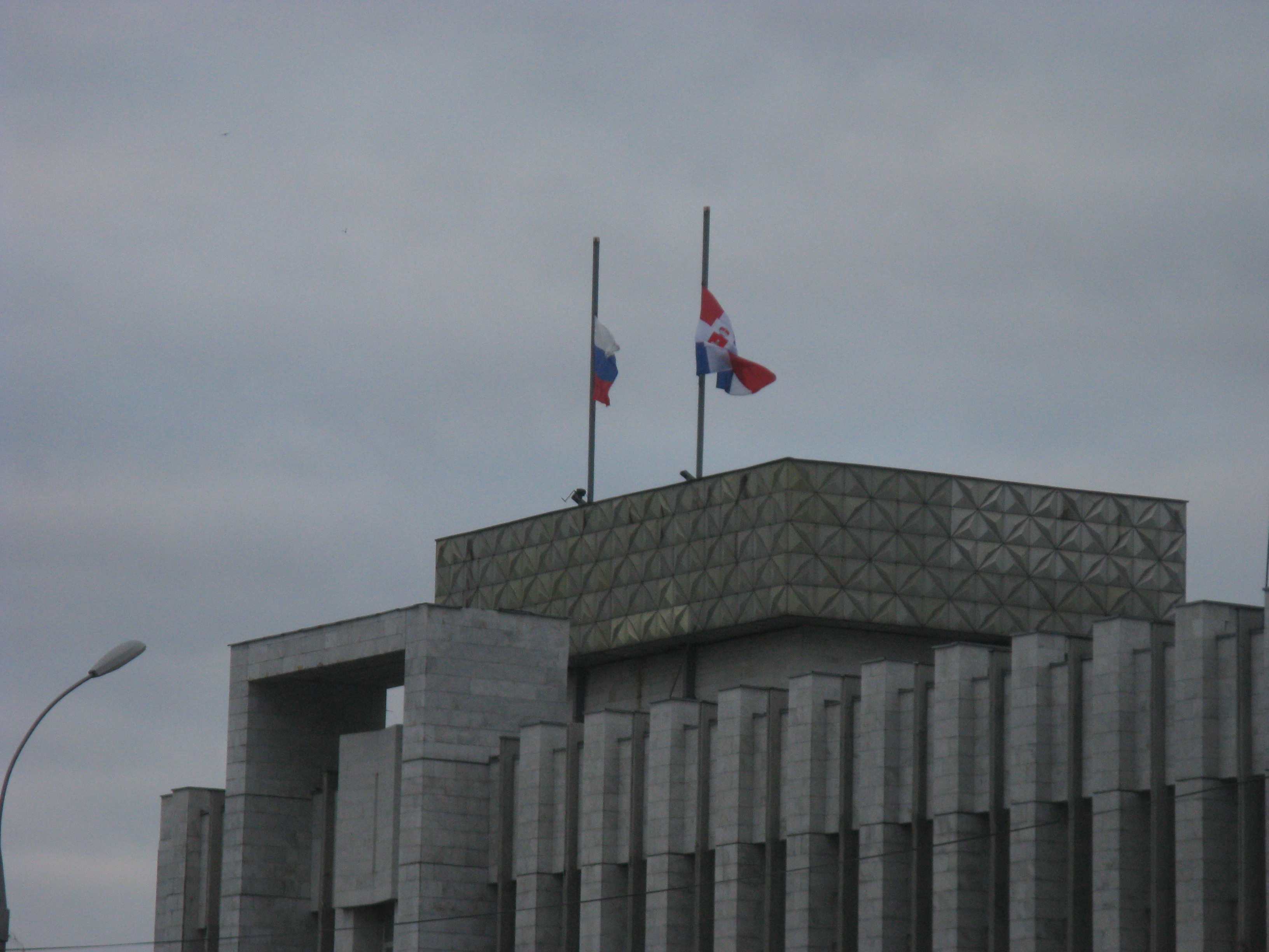 Day of mourning in Russia. The lowered a little flags on a building of administration of the Perm Krai.